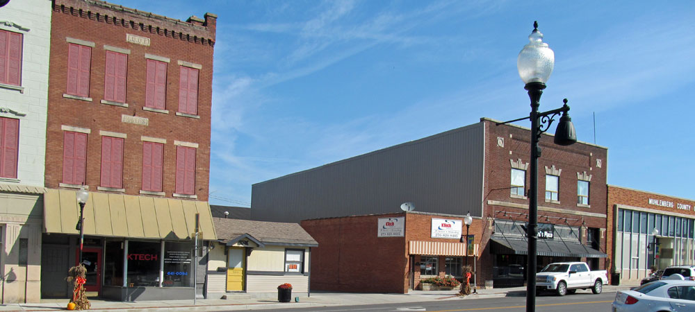 The 100 block of East Main Cross in Greenville, Kentucky. It is part of the Greenville Commercial Historic District on the National Register of Historic Places